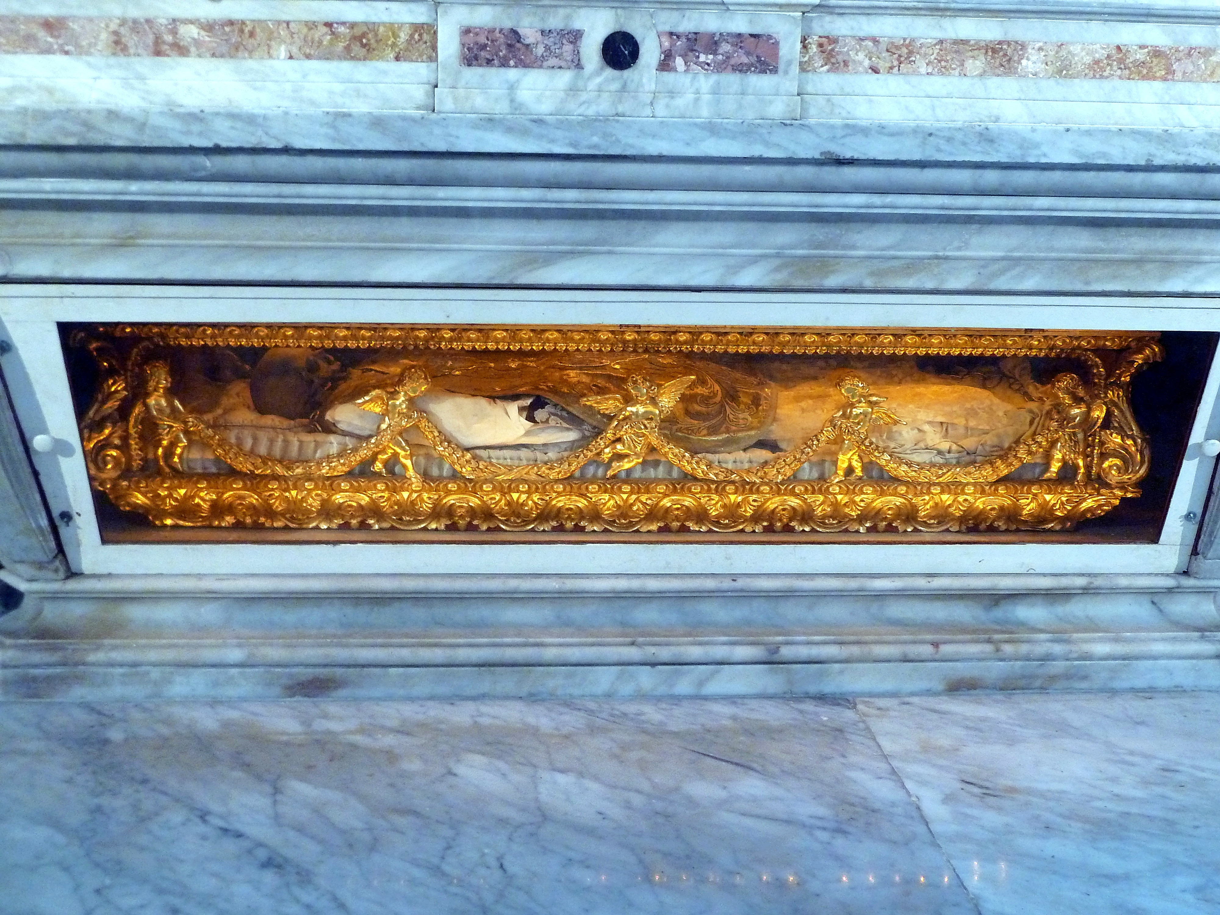 Bones of St. Peter Claver on the altar of Iglesia de San Pedro Claver, Cartagena, Colombia.